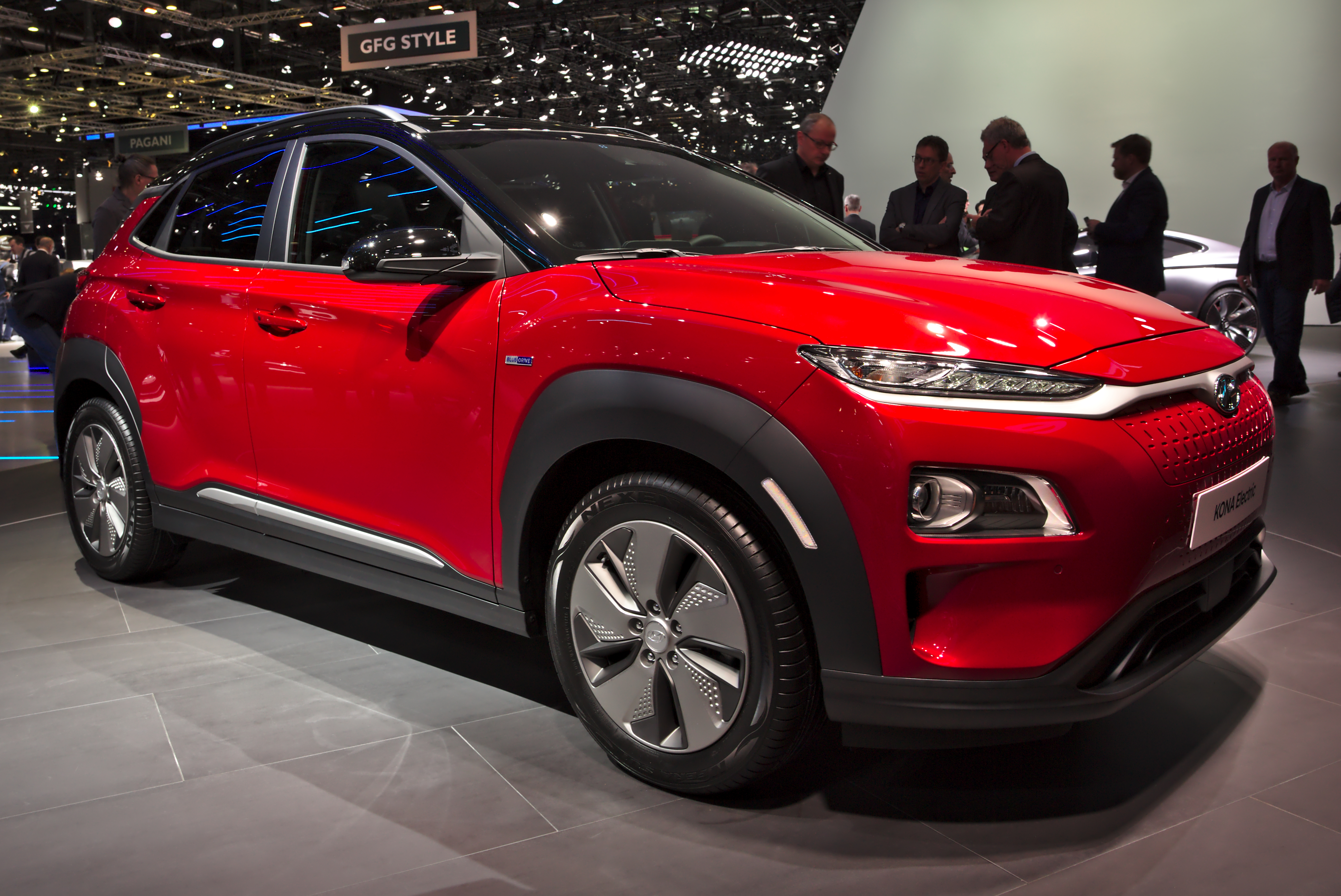 Hyundai Kona Electric at Geneva Motorshow 2018